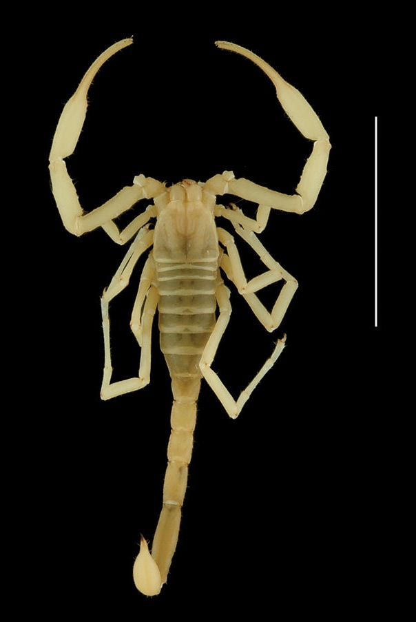 Vietbocap canhi male holotype, dorsal aspect. Scale bar = 10 mm.